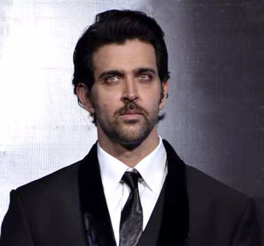 Hrithik Roshan at the launch of the Rado HyperChrome collection in India at Mumbai